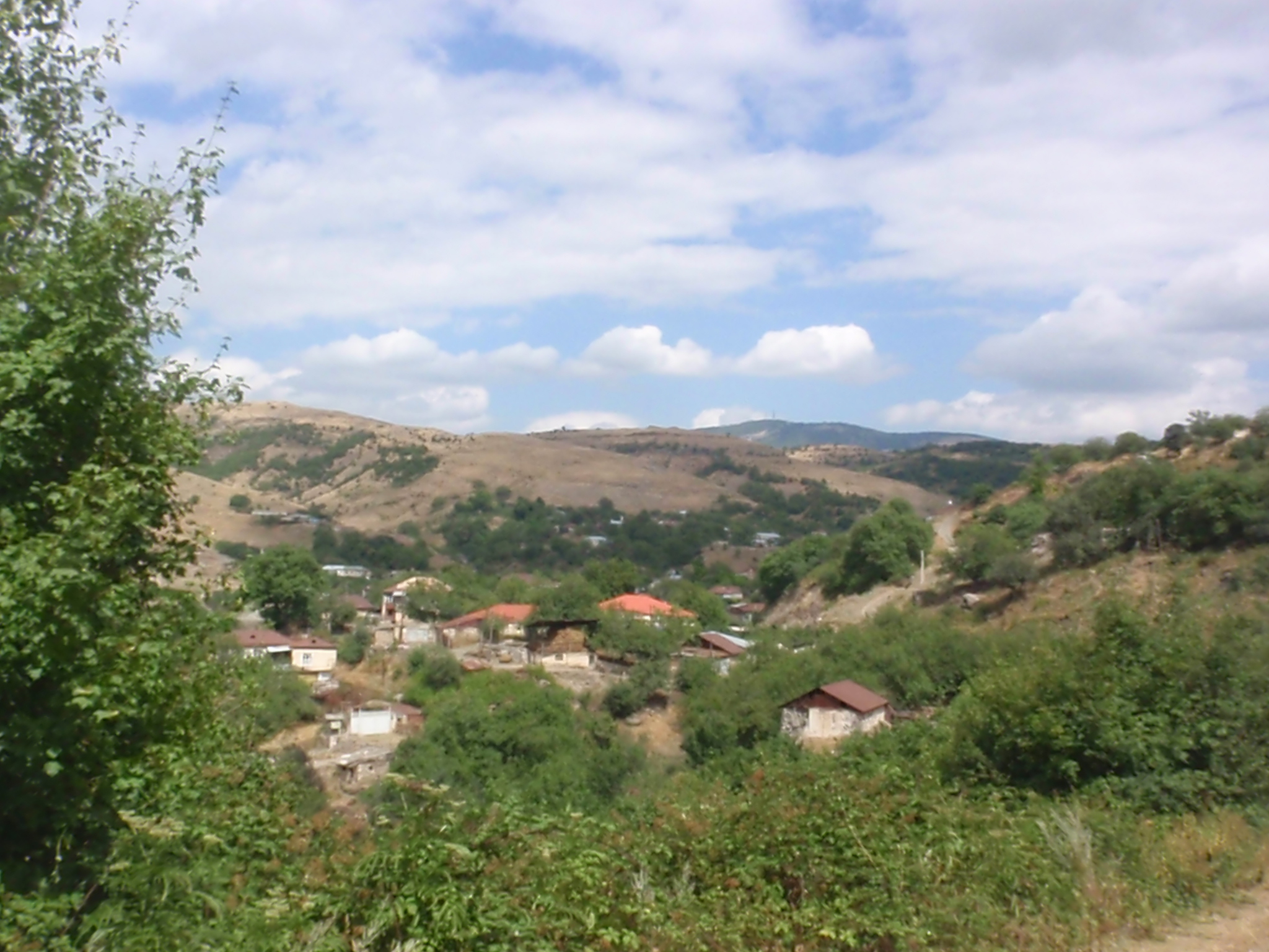 A general view on the village Shosh, Askeran district, Republic of Mountainous Karabakh (Artsakh).